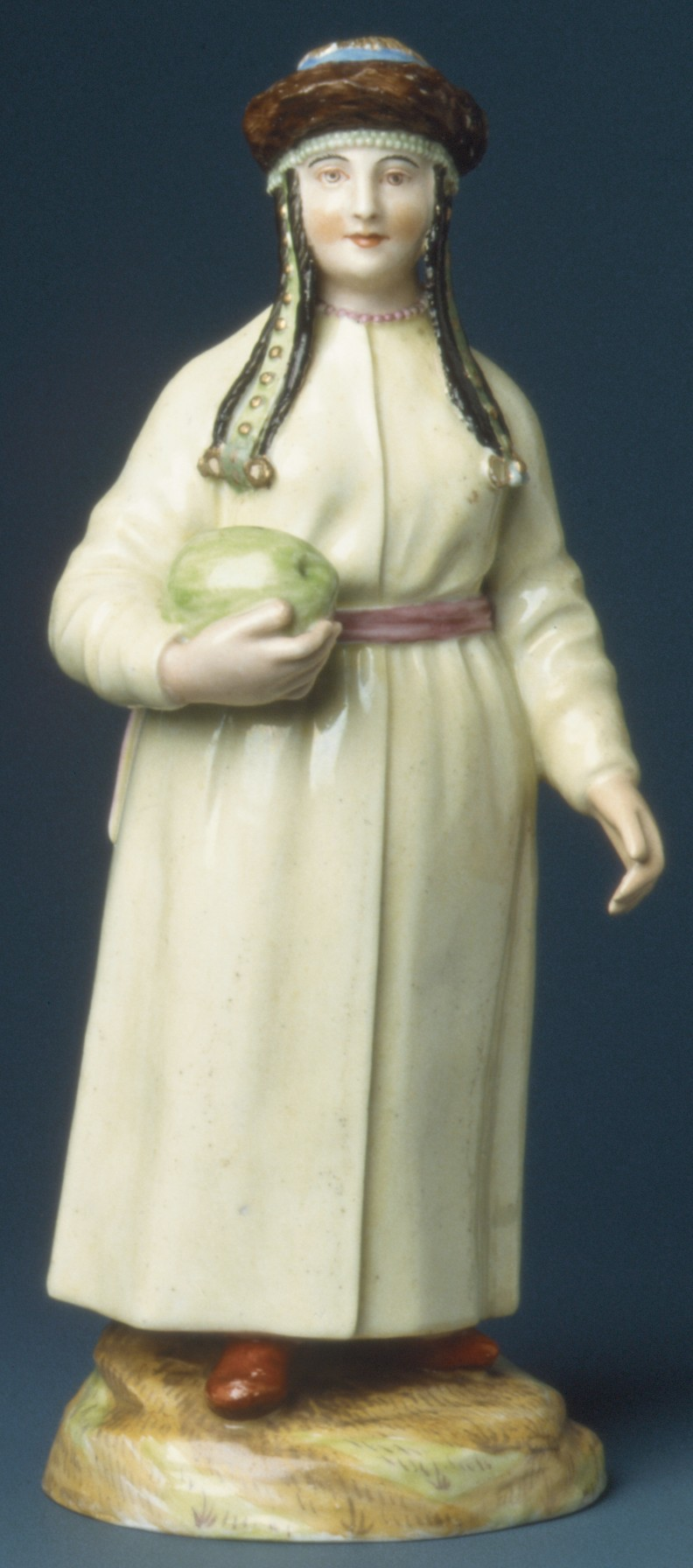 Russian, St. Petersburg; Figure; Ceramics-Porcelain